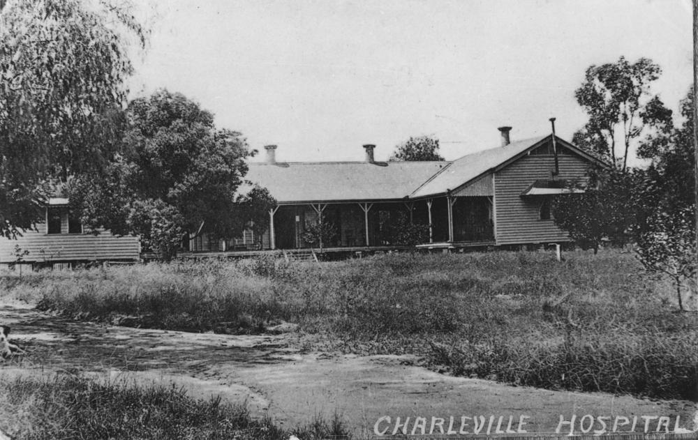 First Charleville Hospital, ca. 1911. This timber hospital was erected in 1885. It was situated in the south west part of Charleville, between King and Parry Streets. (Description supplied with photograph).